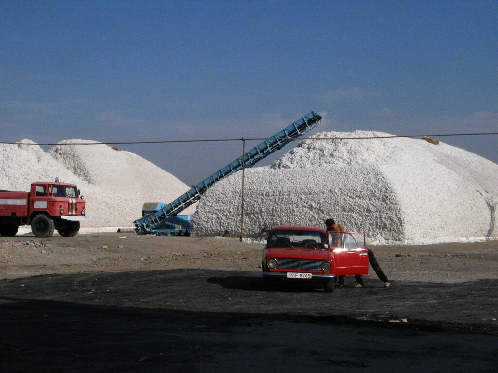 Cotton collect center - Denau, Surkhandarya.